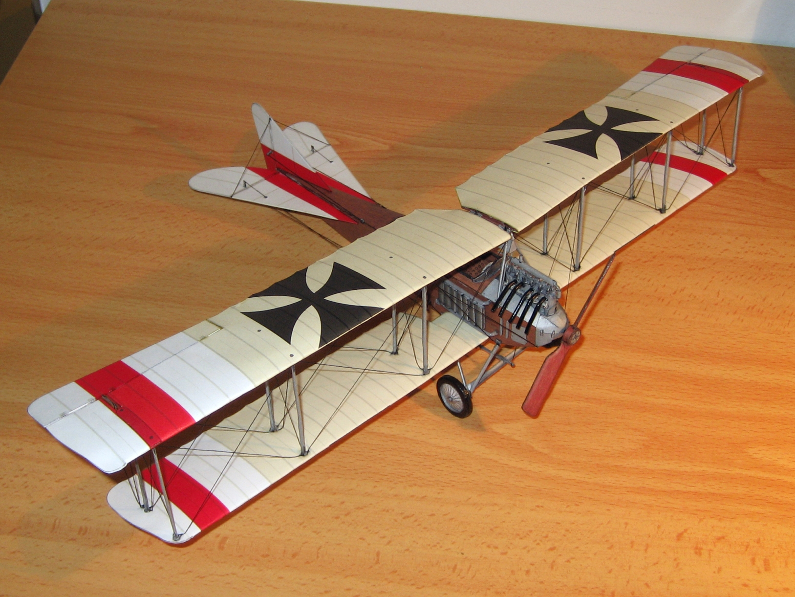 Albatros B.I paper model. Scale 1/33.